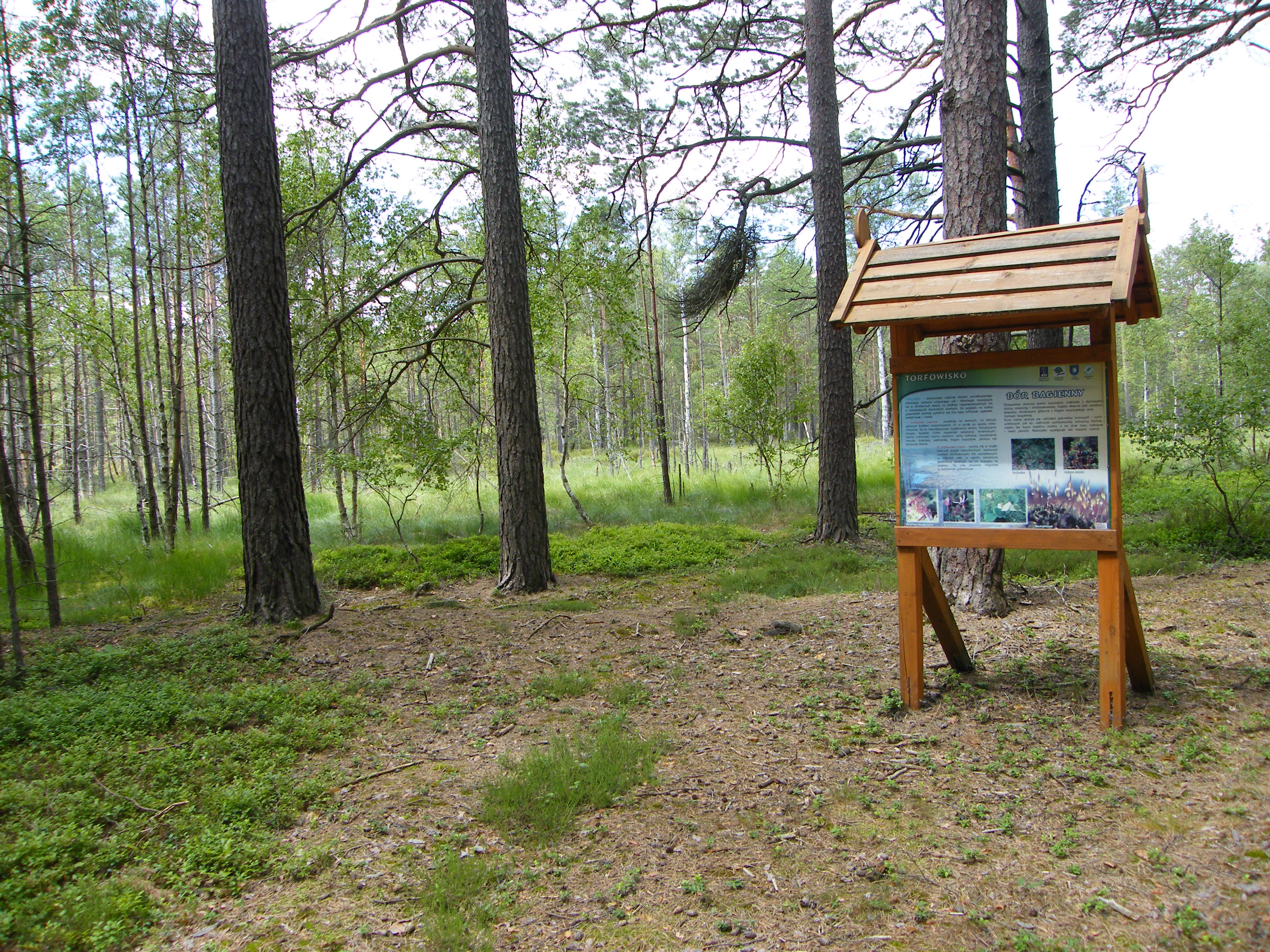 Nature reserve Lipno i Lipionko